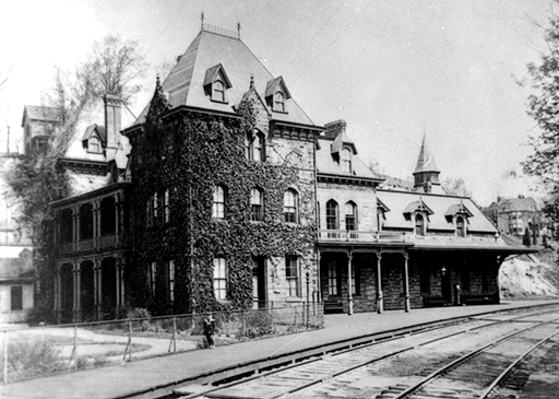 Relay House on the Patapsco River, which was also known as the Viaduct Hotel. Constructed in 1872 at a cost of $50,078.41, the hotel was closed in 1938 and eventually demolished in 1950.